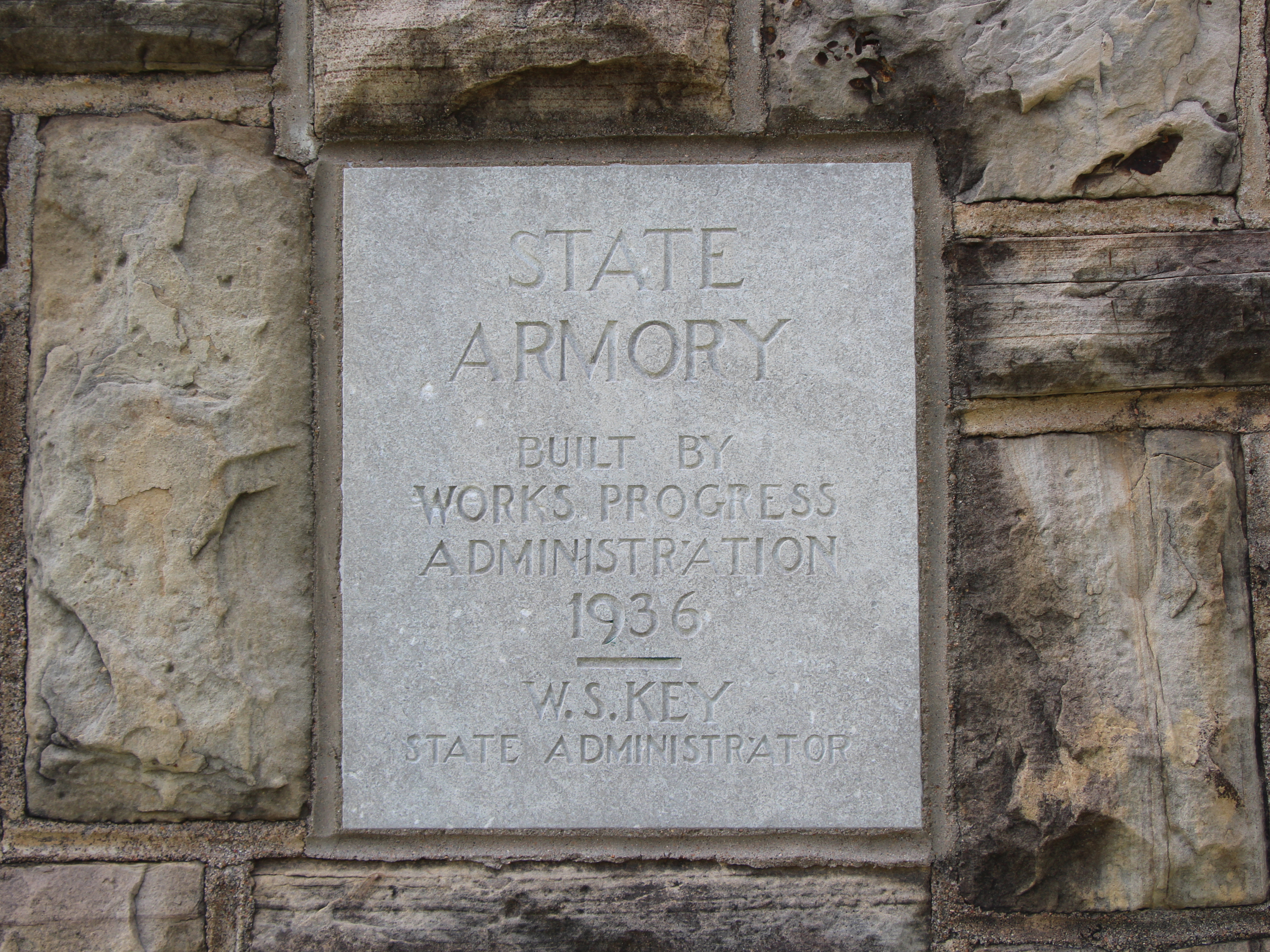 Hominy Armory, 201 N. Regan St. Hominy